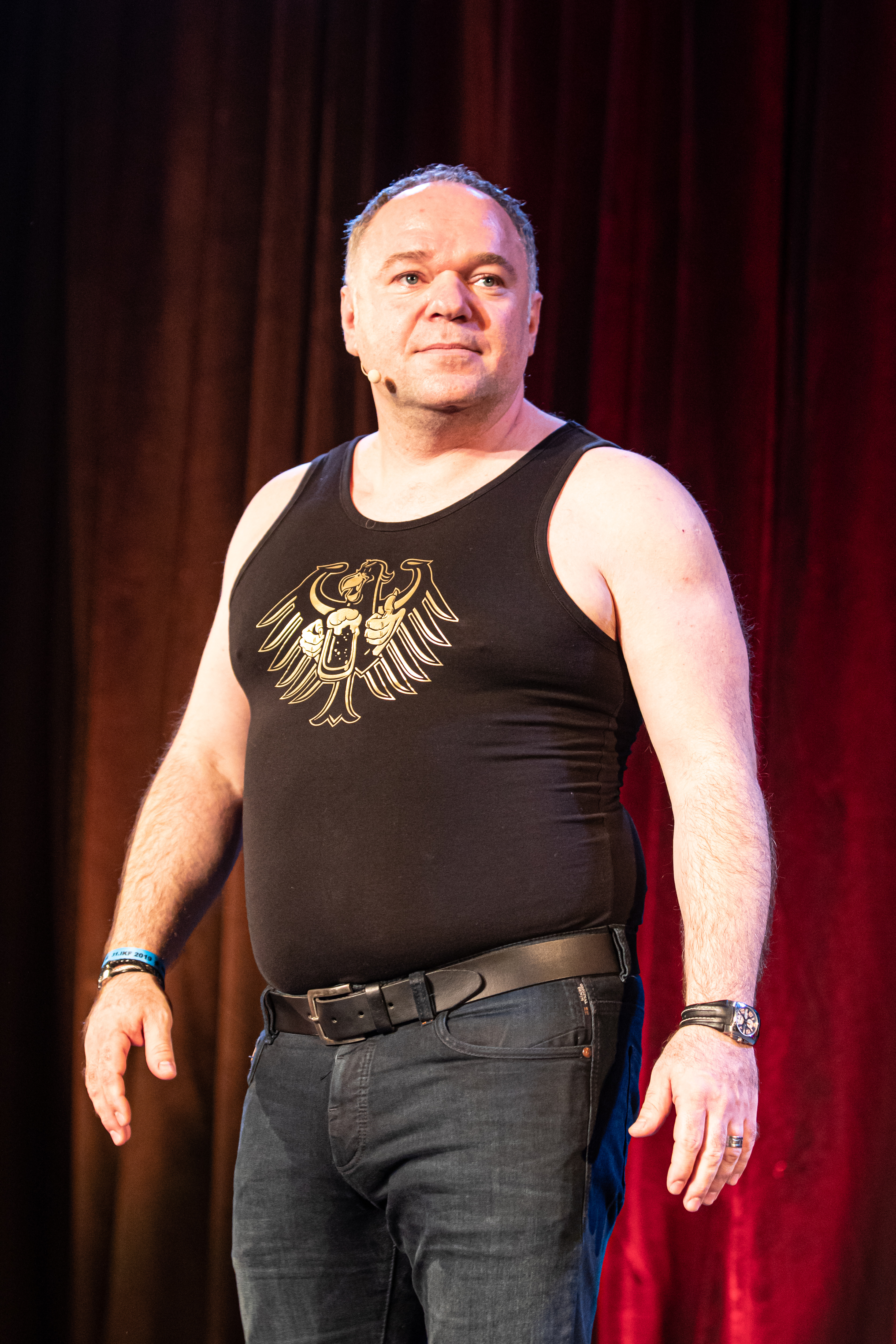 Comedian Serhat Doğan at the Kulturbörse Freiburg 2019